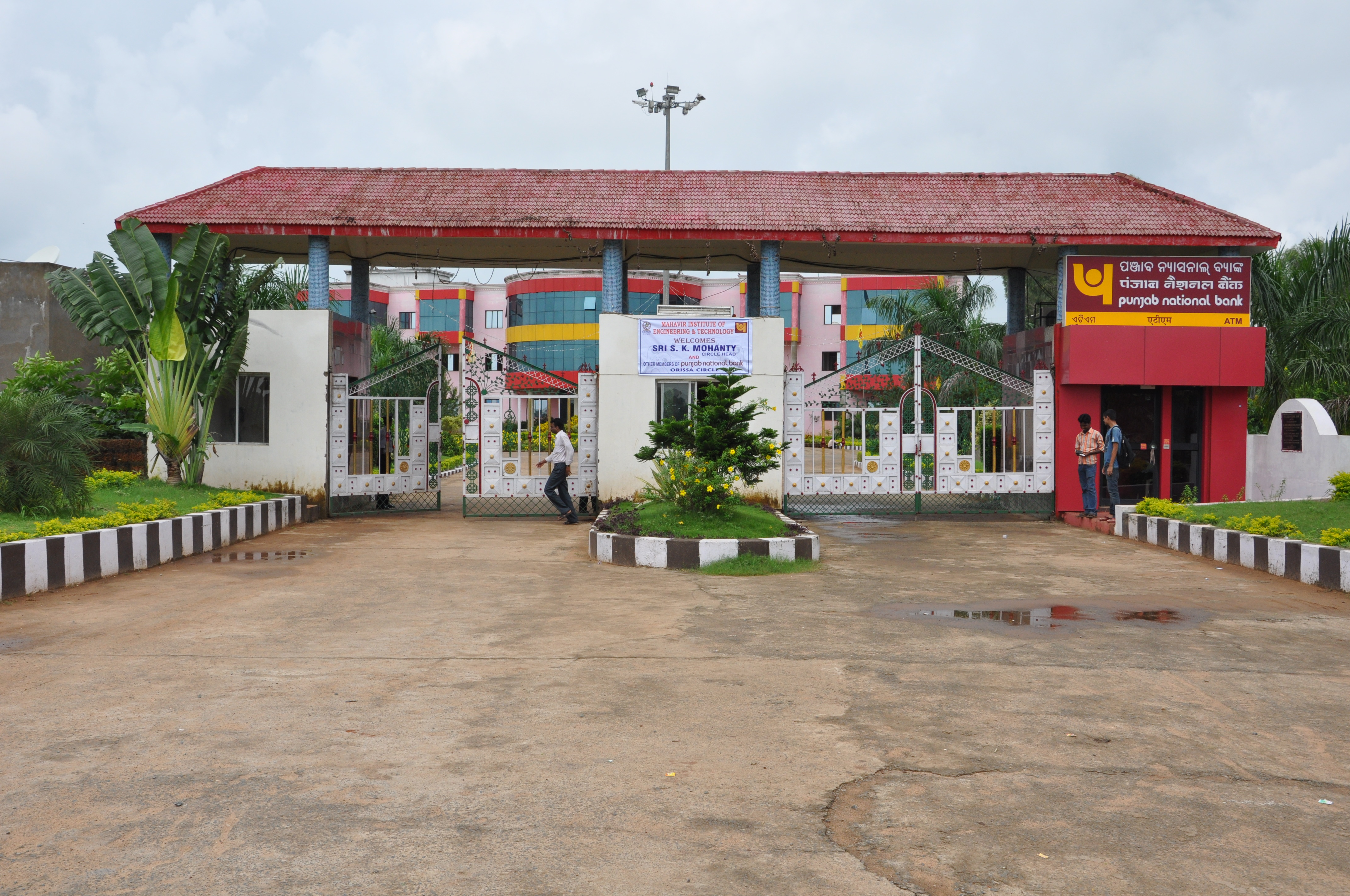 MIET_Gate